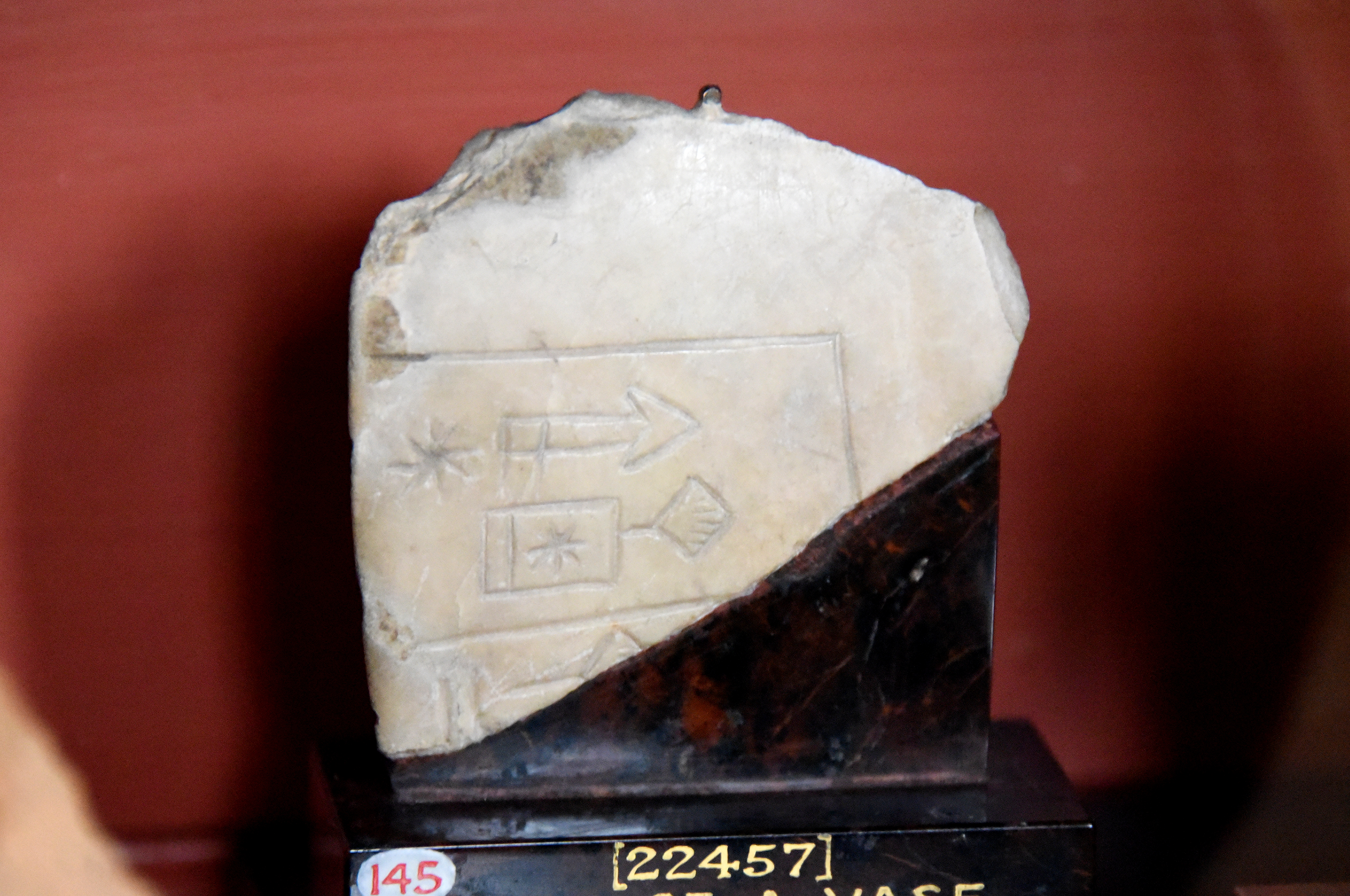 This is a fragment of a marble conical bowl. The area below the rim is inscribed with a cuneiform text; a dedication to the goddess Geshtinanna. Sumerian, pre-Sargonic period. From Uruk (Warka), southern Mesopotamia, modern-day Iraq. It is currently housed in the British Museum in London.